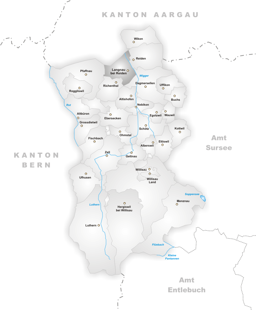 Municipality Langnau bei Reiden